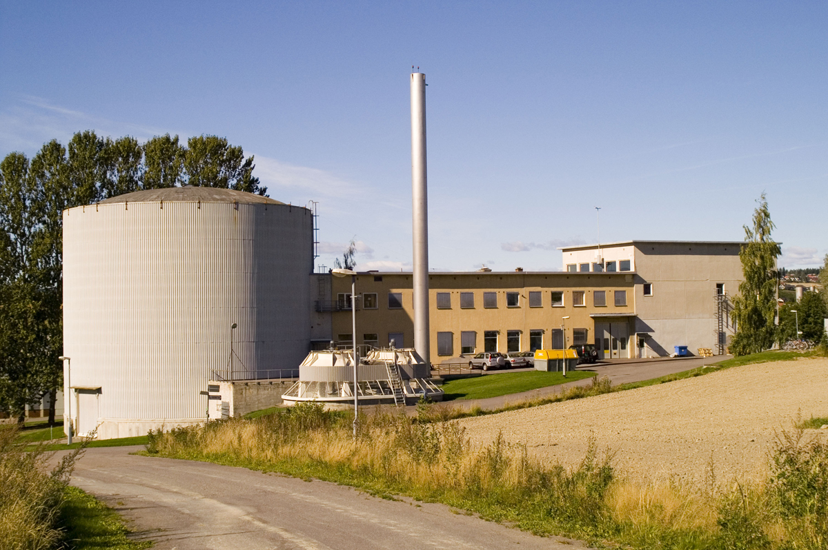 JEEP II, Nuclear power plant at Kjeller, Norway. used for basic research in physics and material science as well as production of radio pharmaceuticals